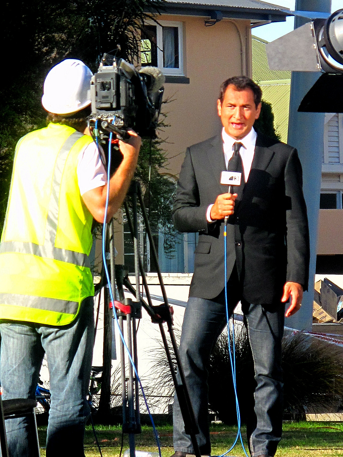 (Wed 2-3-2011) Mike McRoberts of TV3 fronting the current affairs programme CampbellLive broadcast from the Earthquake Command Centre; aftermath of the magnitude 6.3 earthquake in Christchurch on Tuesday 22 February 2011.